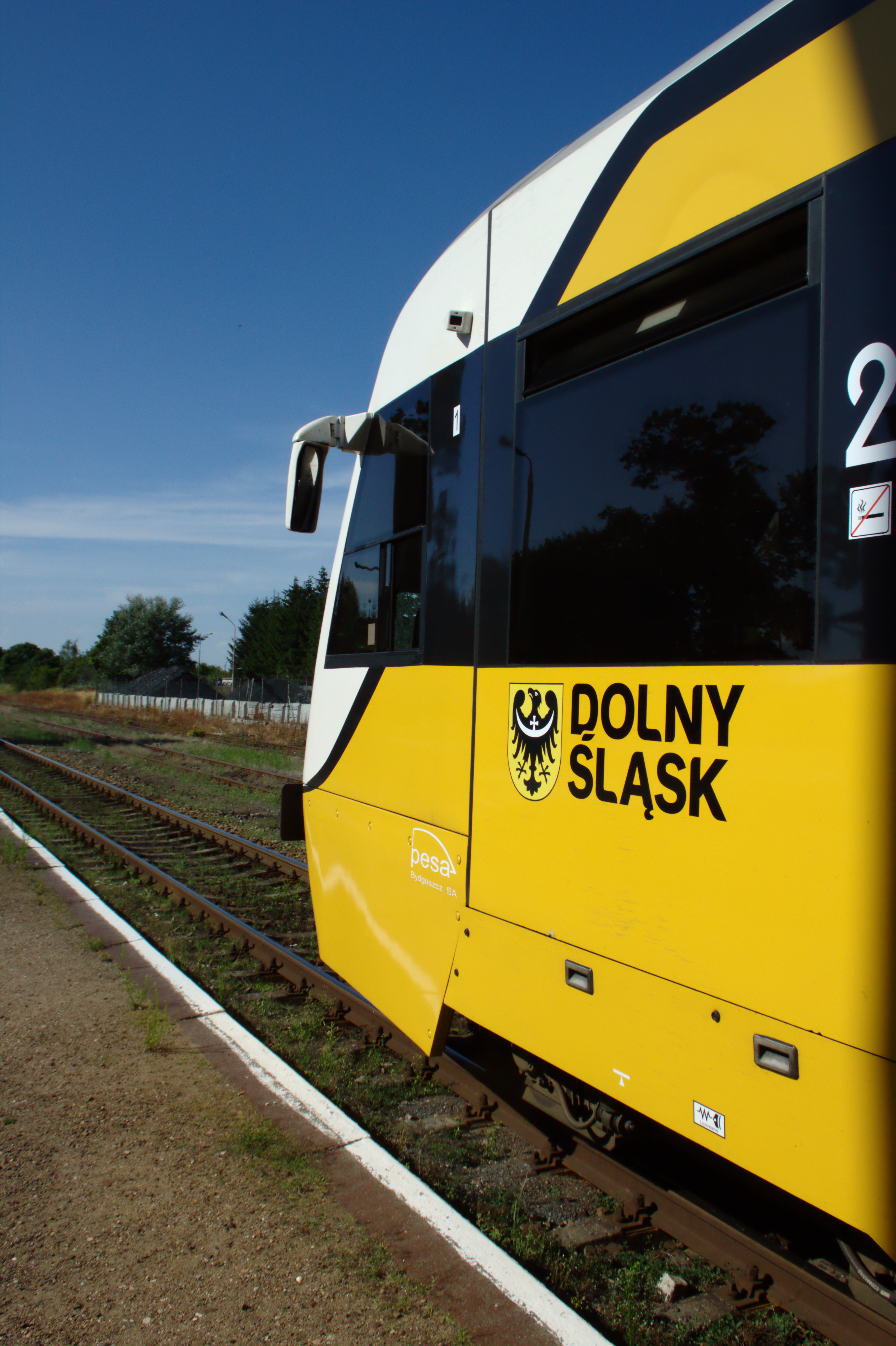 A train of Koleje Dolnośląskie copany at Ząbkowice Śląskie train station (heading for Kłodzko), Poland